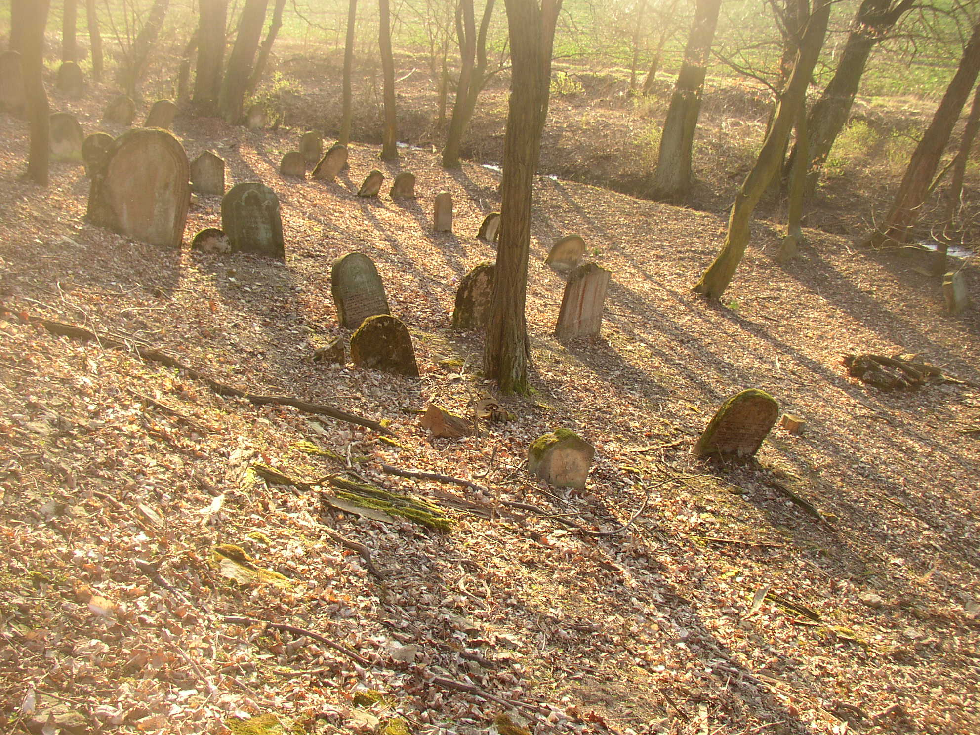 So called Old Jewish cemetery near village of Hostouň, Kladno District, Czech Republic.